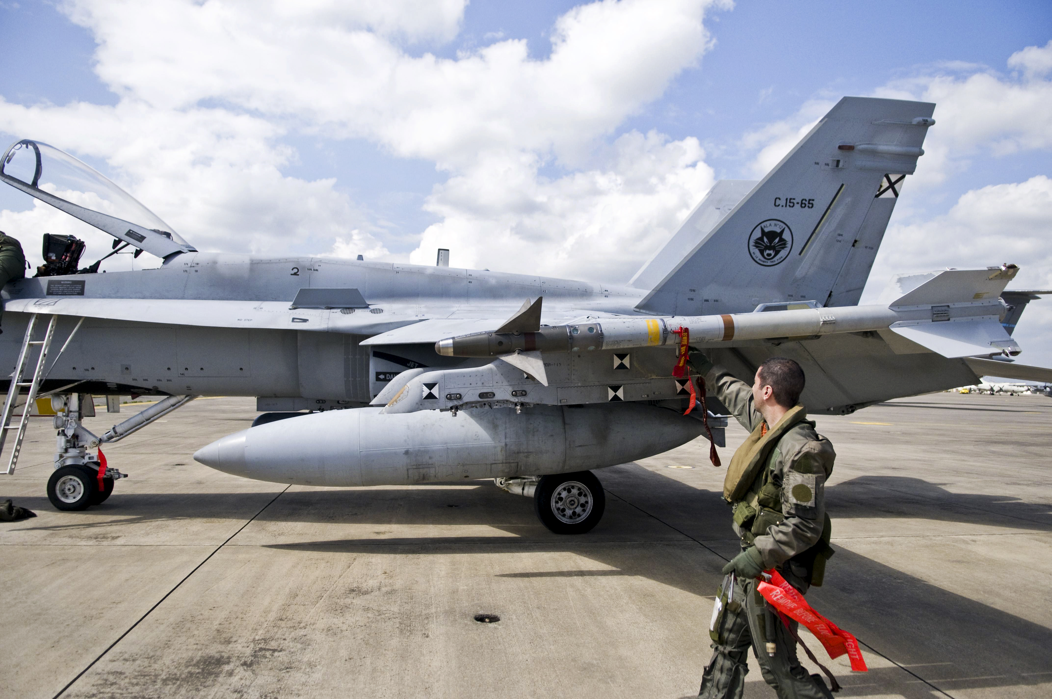 Spanish F-18 Fighters refuel on Italian Air Force base Sigonella, Italy, March 22, 2011. These aircraft are part of Task Force Odyssey Dawn, the U.S. Africa Command task force to provide operational and tactical command and control of U.S. military forces supporting the international response to the unrest in Libya